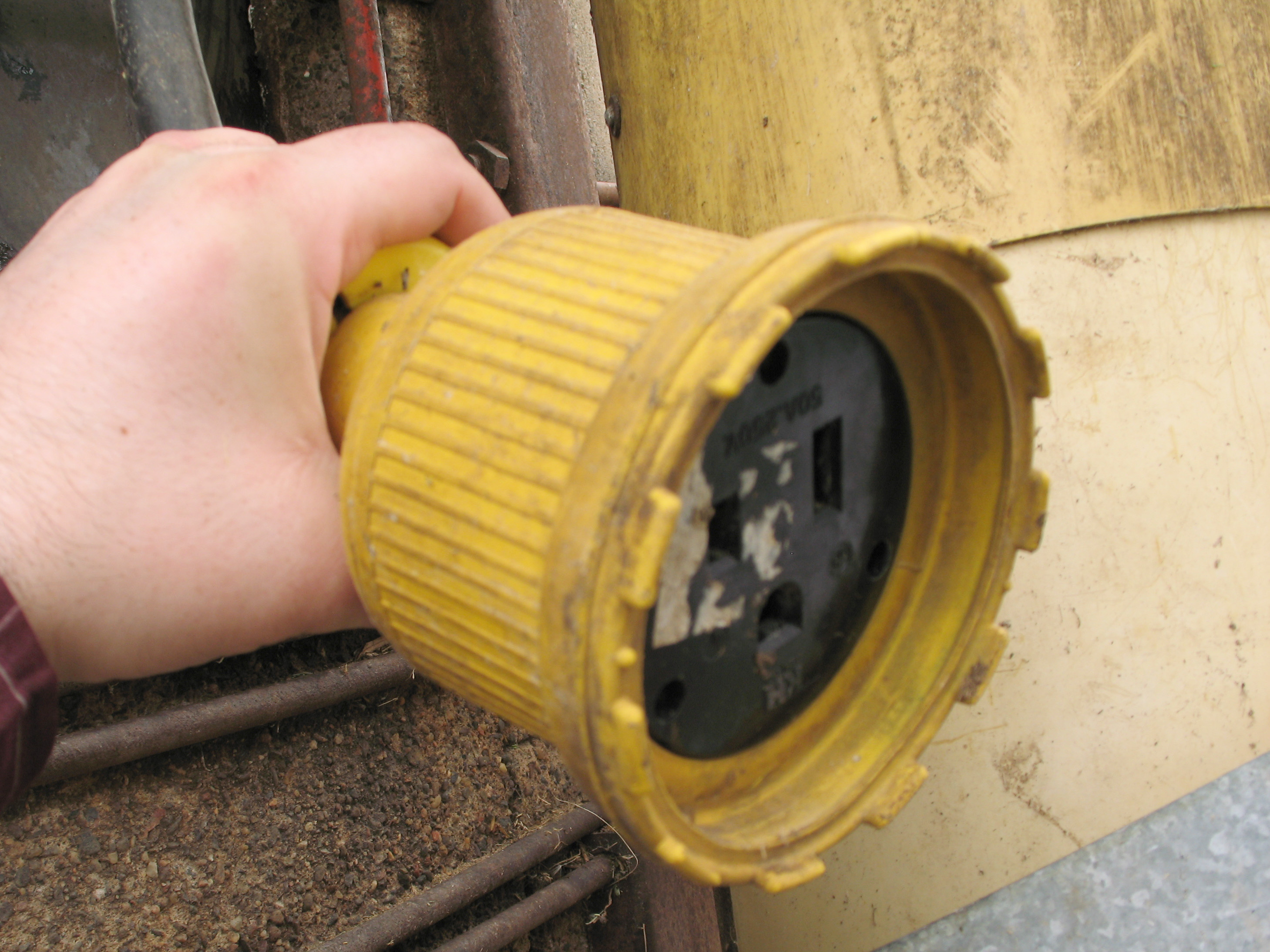 Closeup view of the 50 A 250 V power connector for the silo unloader. The socket is enclosed in a flexible rubber shroud which folds over the plug and locks into a groove around the plug to keep out dust and silage. The notches further align with mating notches on the plug to keep out debris.